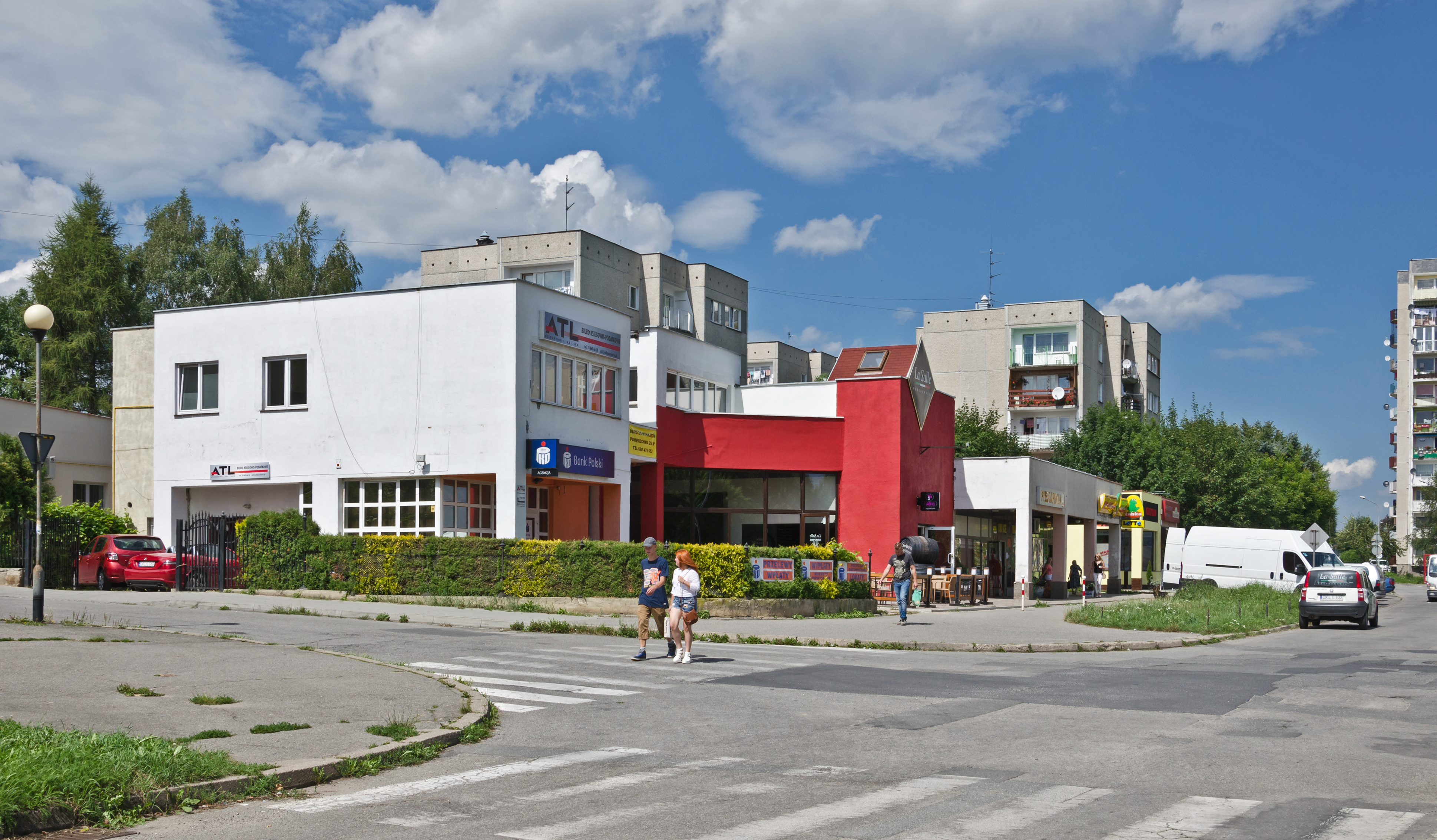 Spółdzielcza Street in Kłodzko